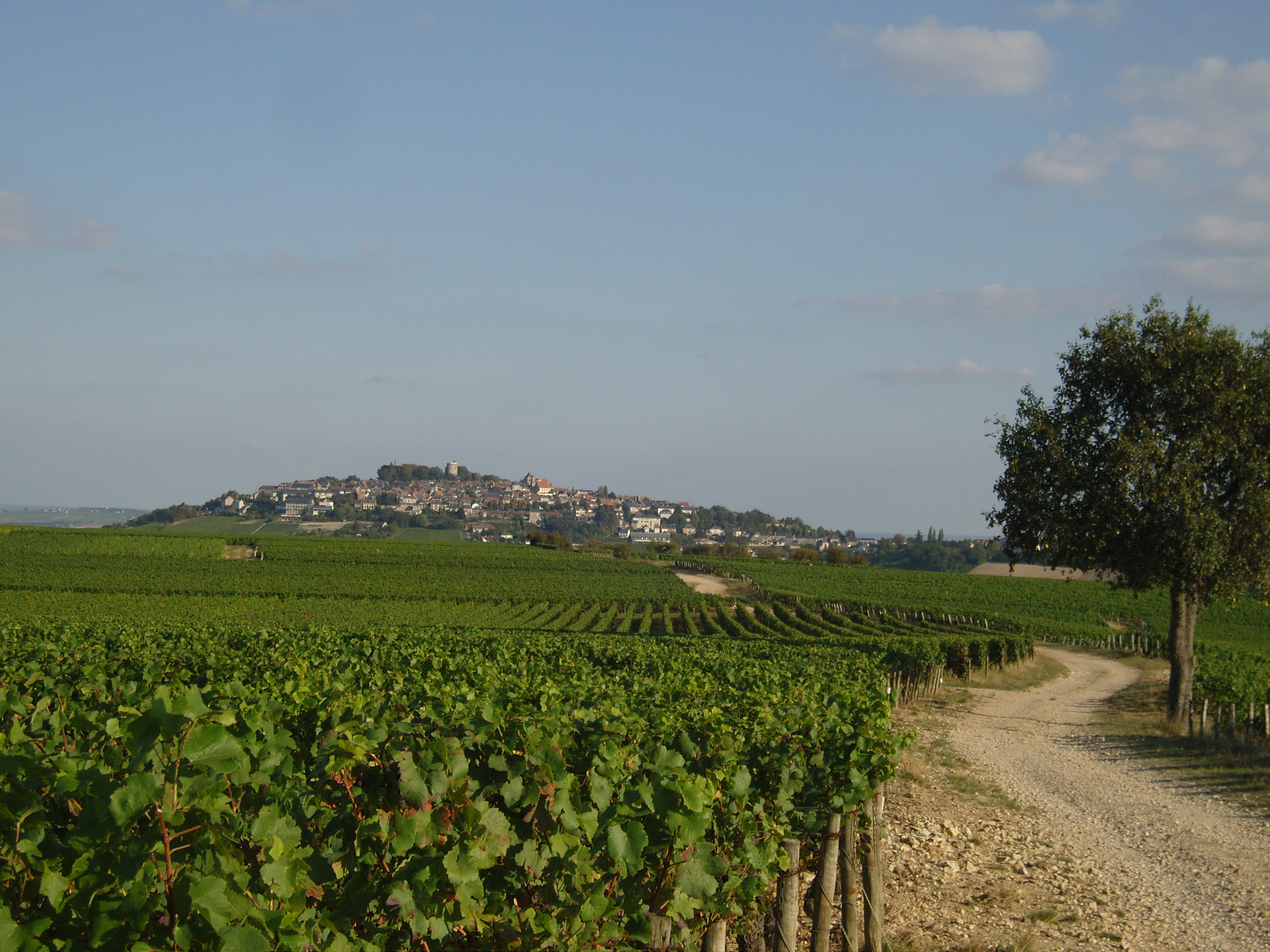 Vineyards in the French wine region of Sancerre in the Loire Valley.